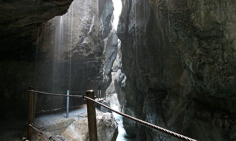 Inside the Partnachklamm close to Garmisch-Partenkirchen